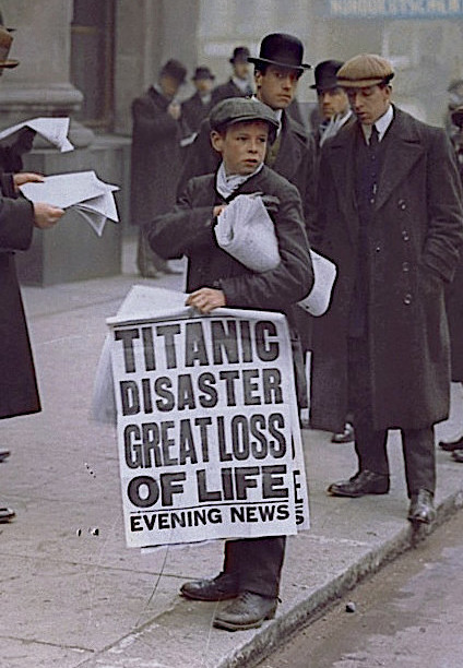 Colorised photo of Ned Parfett, best known as the "Titanic paperboy", holding a large newspaper banner advert about the sinking, standing outside the White Star Line offices at Oceanic House on Cockspur Street near Trafalgar Square in London SW1, April 16, 1912.